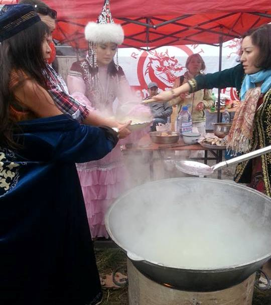 Toykazan